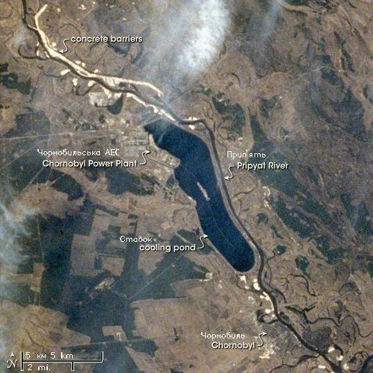 The region around the Chernobyl nuclear power plant, as seen from the Russian space station Mir.